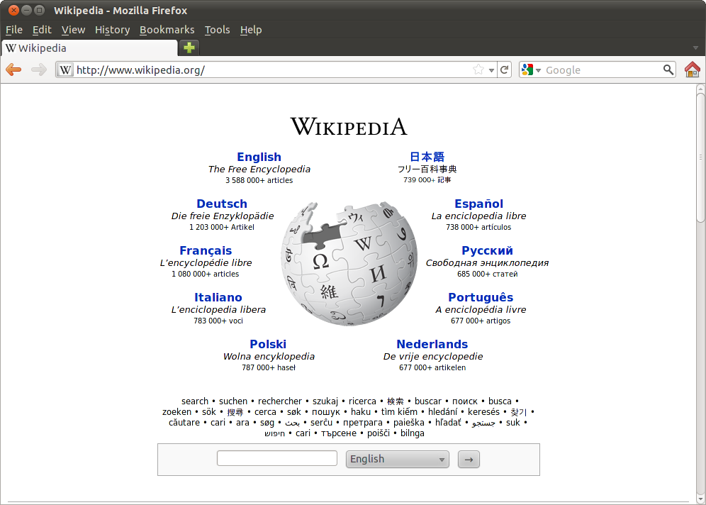 Screenshot of Firefox 4 running on Ubuntu 10.10 viewing the Wikipedia Main Page.